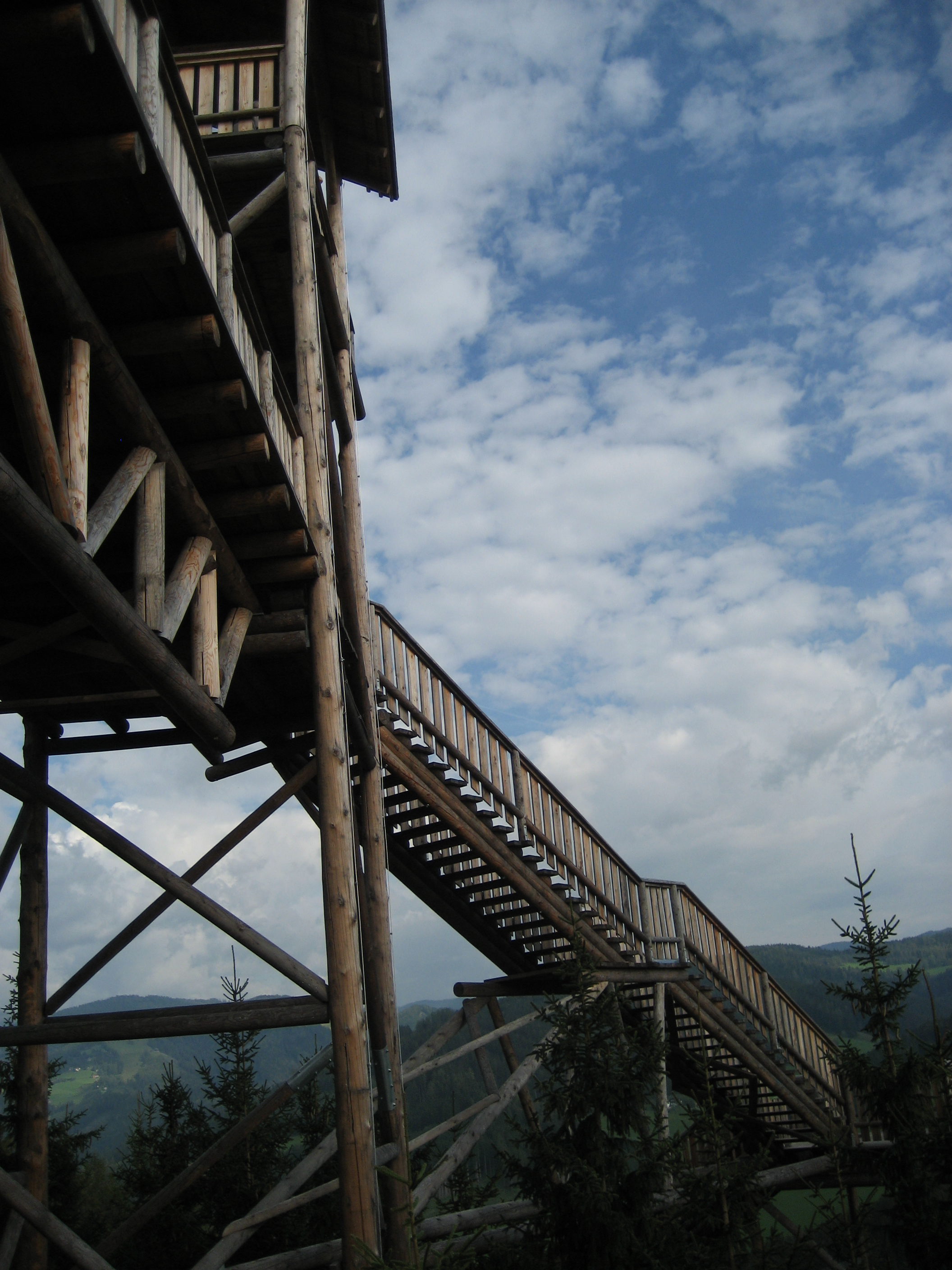 "Wipfelwanderweg" in Rachau, Styria, Austria, Europe